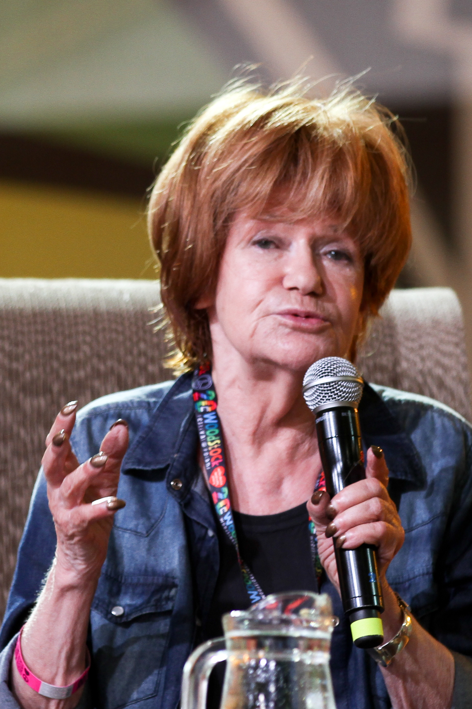 Przystanek Woodstock 2014.